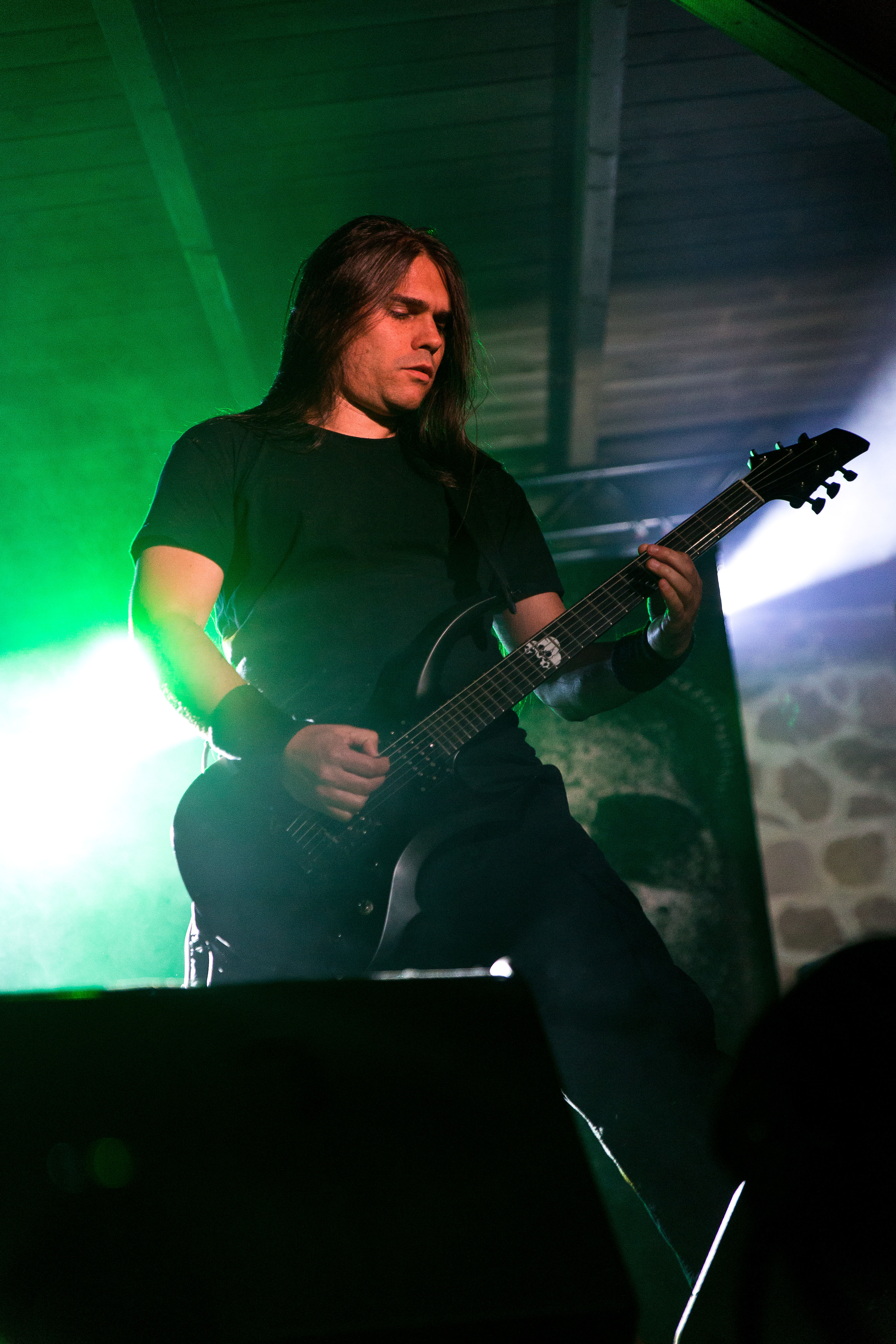 The Italian dark metal band Graveworm at the Dark Troll Open Air 2016 in Bornstedt/Germany.